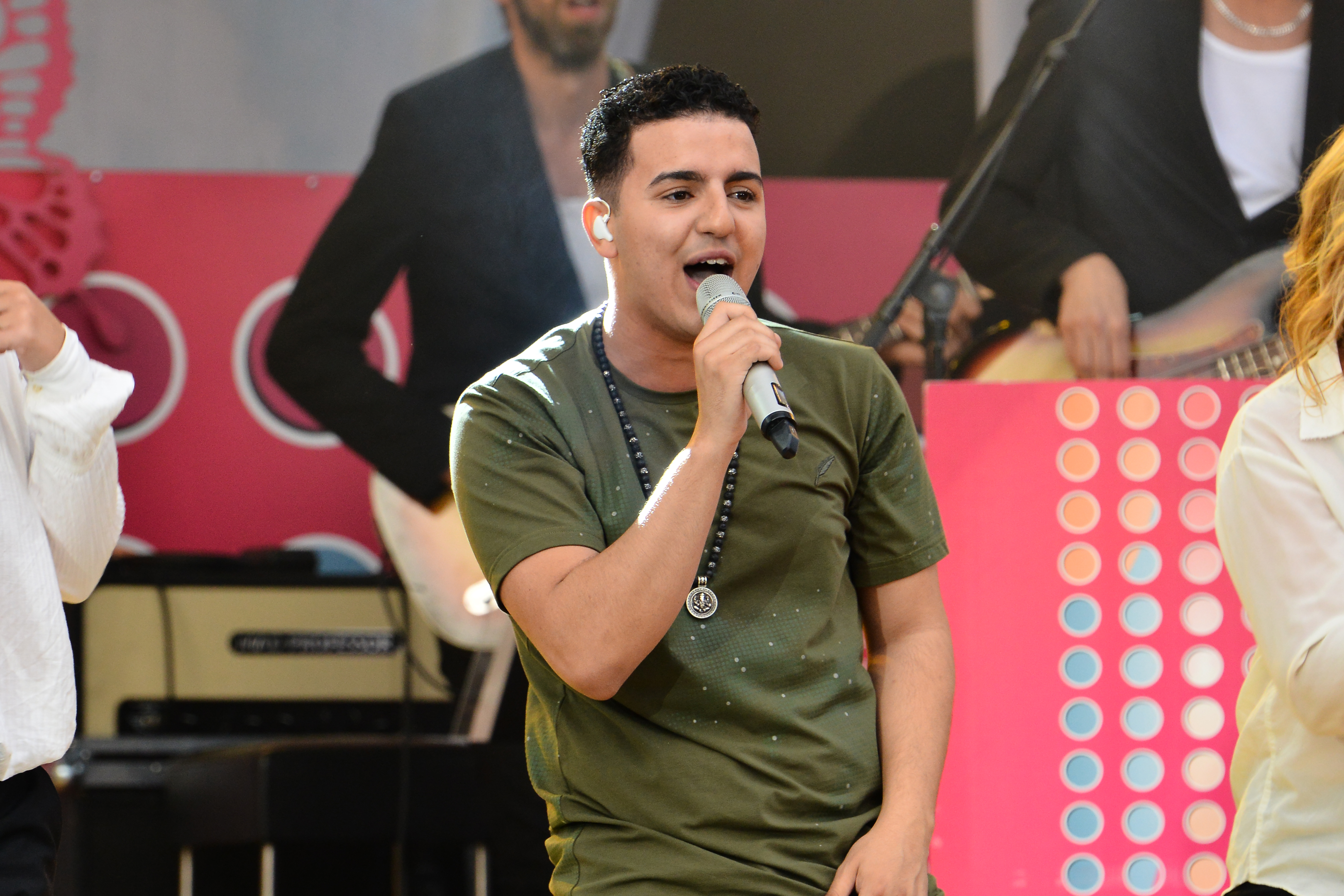 Basim at Sommarkrysset in Stockholm, Gröna Lund